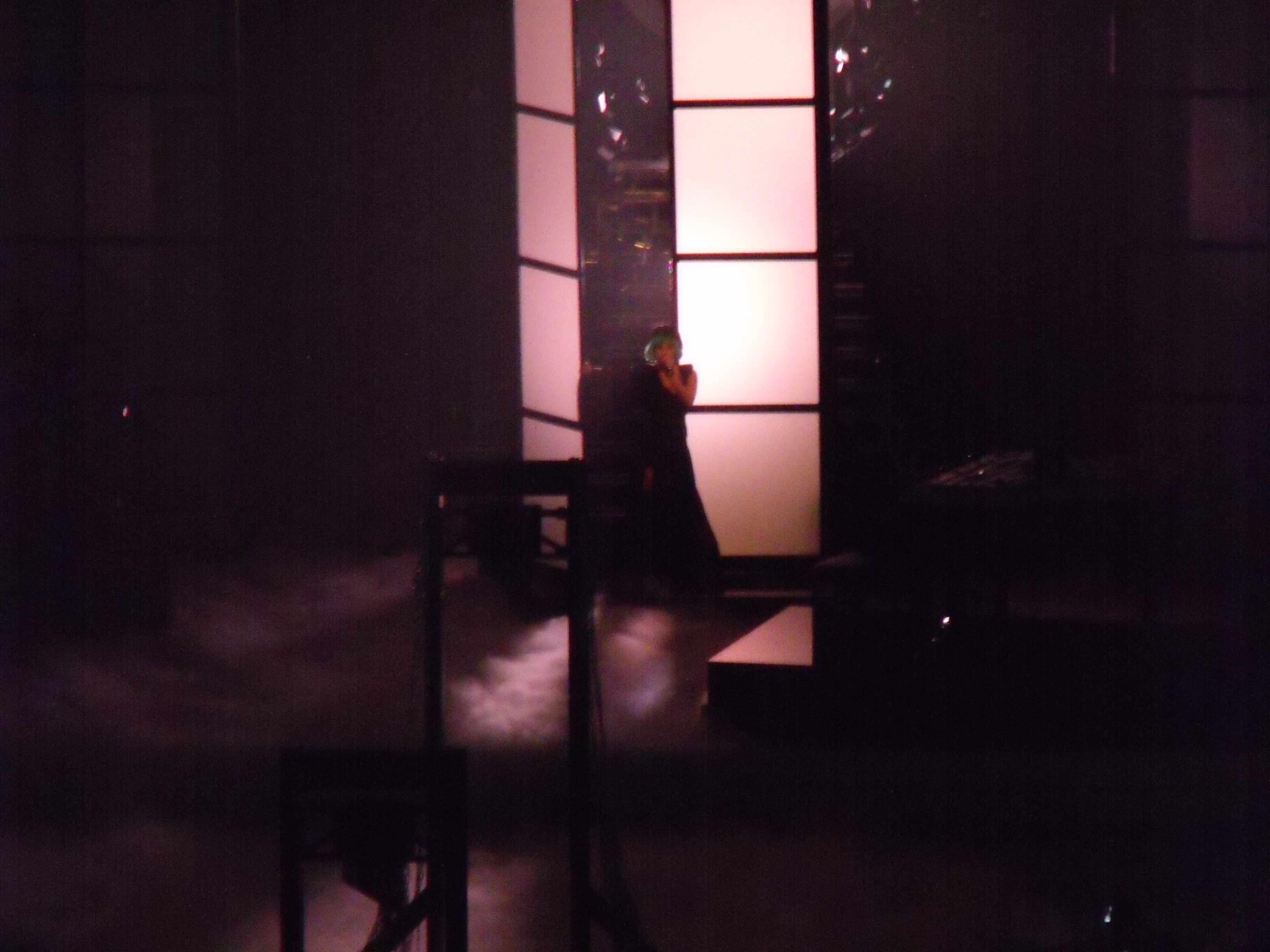 Lady Gaga perfoming "Scheiße" at GNTM